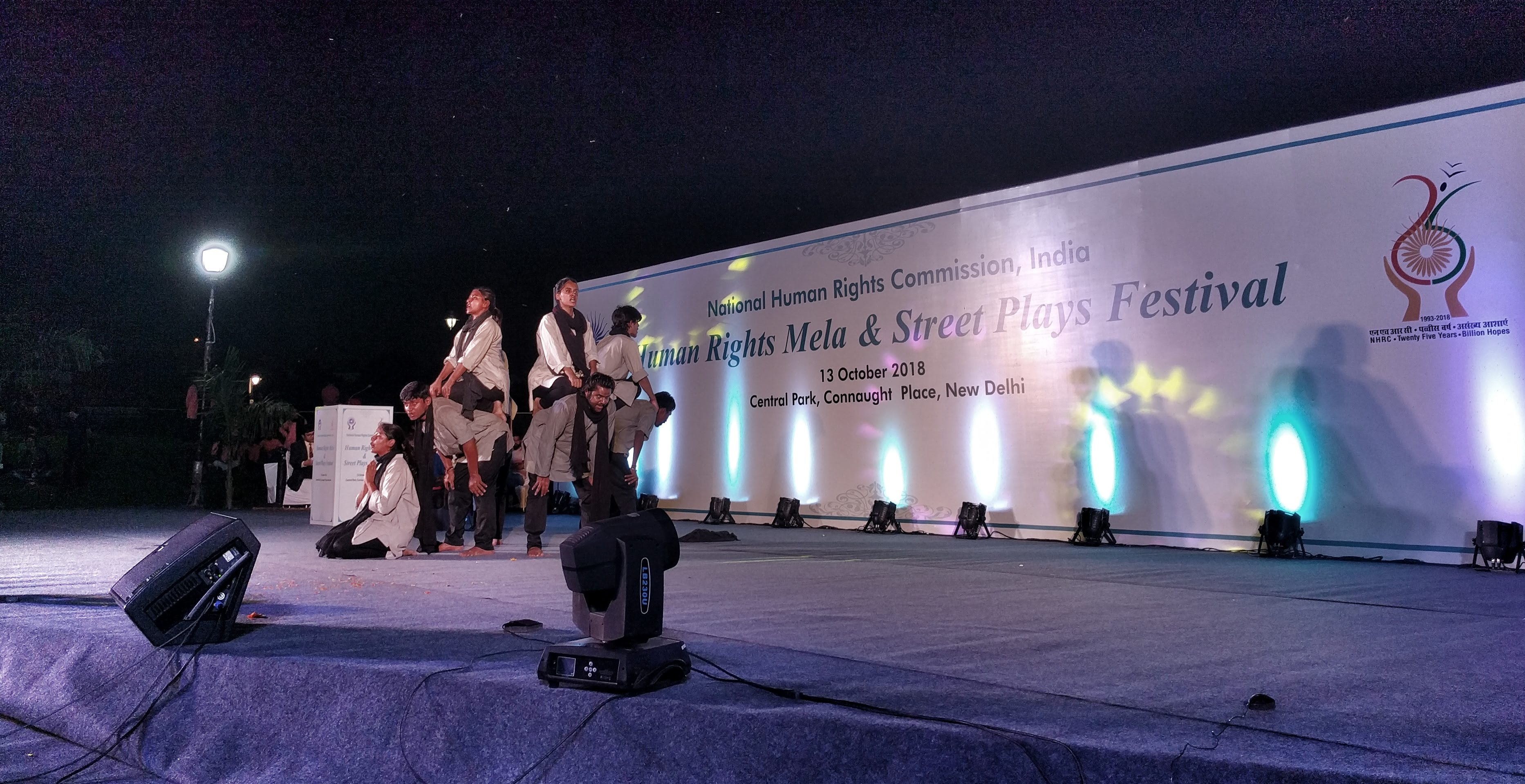 Human Rights mela (festival), Connaught Place, Rajiv Chowk, New Delhi organised by National Human Rights Commission, India